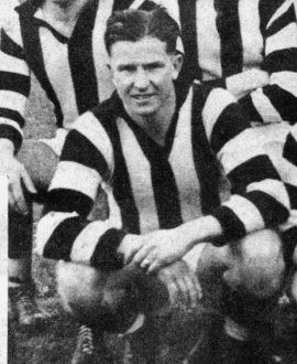 Photo of Ray Riddell in 1945